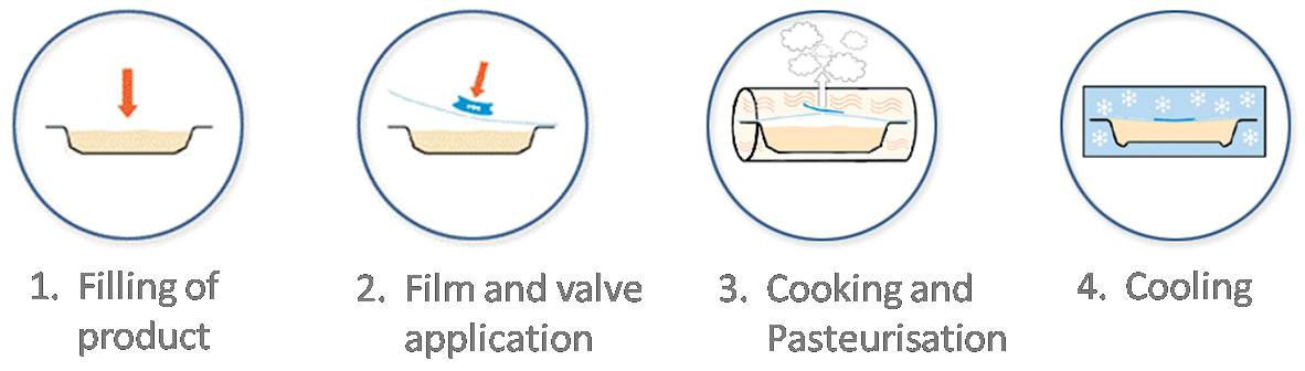 Principle of the Micvac method. A method for in-pack cooking and pasteurization of ready meals.